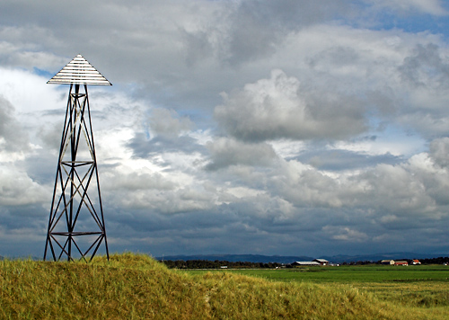 Day mark. Aid to sea navigation. Location: Jærens rev, municipality of Klepp in the county of Rogaland, Norway Kjelde: Jærbladet